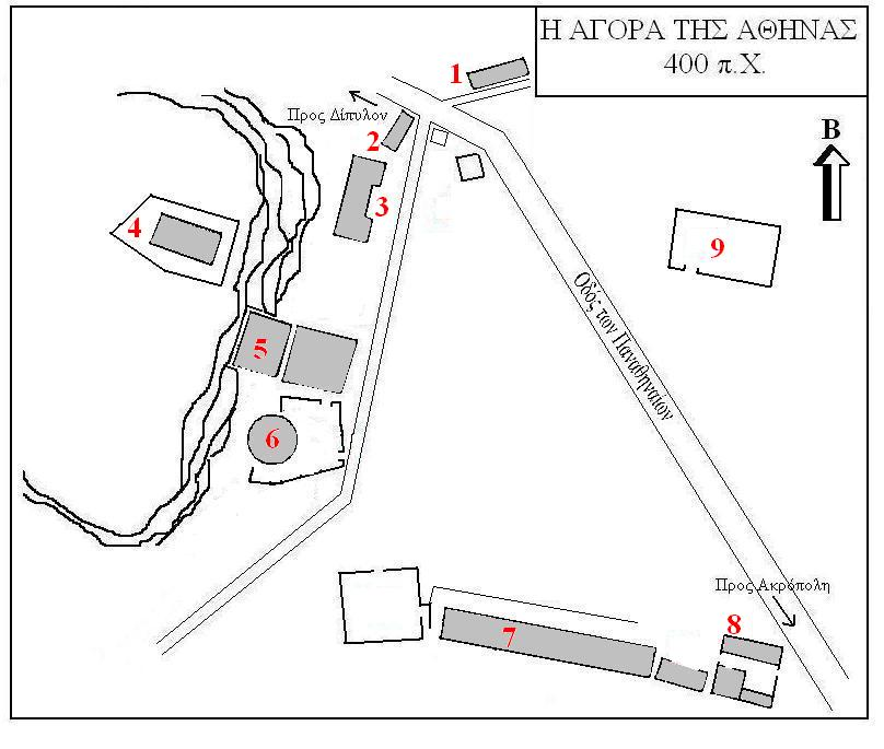 The Agora of Athens in 400 B.C.